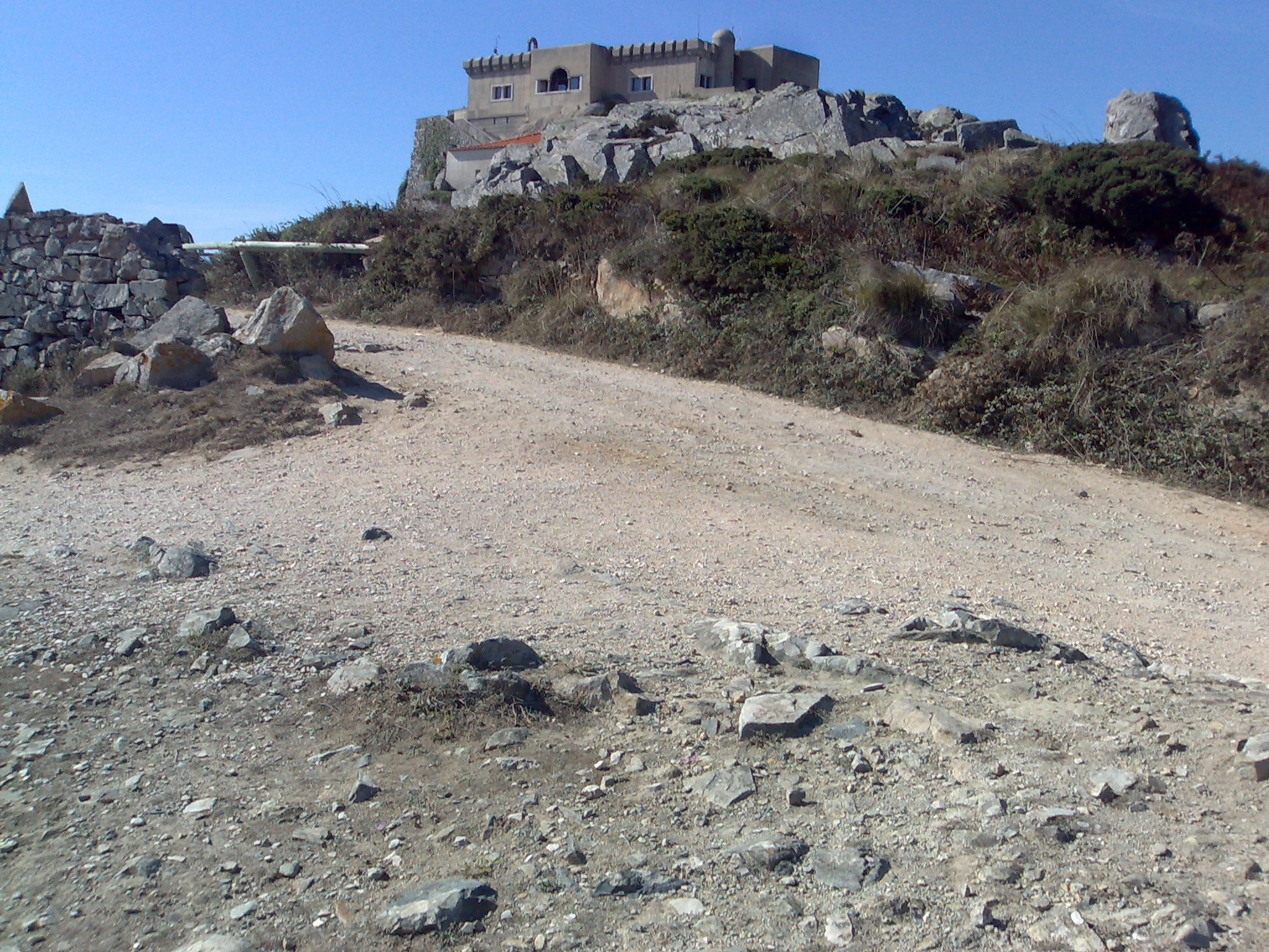 Chapel of Nossa Senhora da Penha (Colares, Sintra, Portugal)